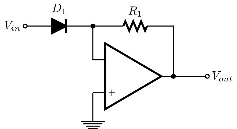 Antilogarithmic or Exponential Amplifier builded using an op-amp, one resistor and one diode